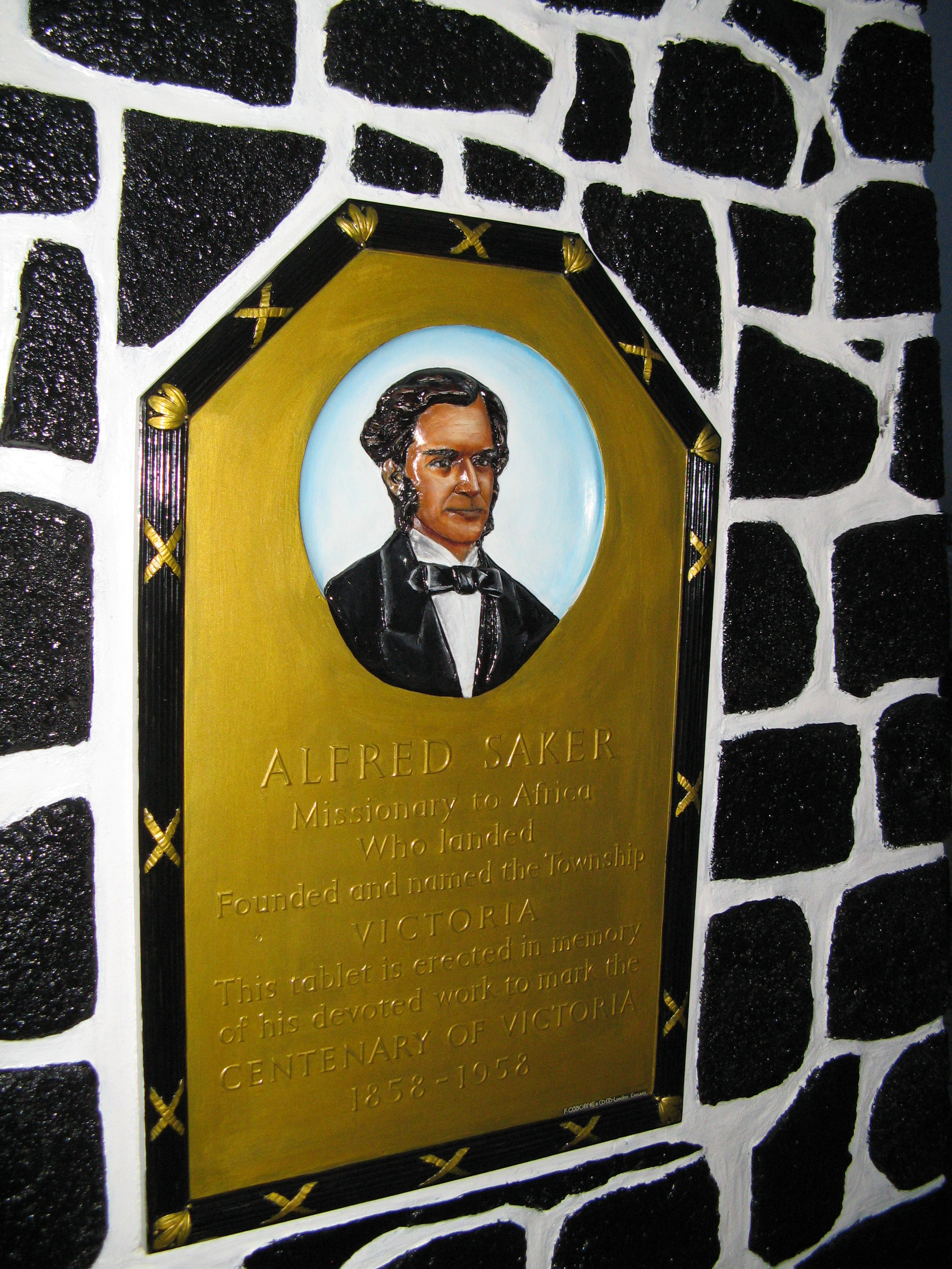 Alfred Saker was the British missionary who first established the settlement in 1858 which is considered the founding of the town of Victoria. The town was renamed Limbe in 1982. The Cameroon Bible Society still distributes the Duala language Bible which Alfred Saker translated in the late 1800s. The inscription on the monument reads: "Alfred Saker, Missionary to Africa, Who landed, founded and named the Township Victoria. This tablet is erected in memory of his devoted work to mark the Centenary of Victoria, 1858-1958" and is located in the state of Cameroon, Africa.